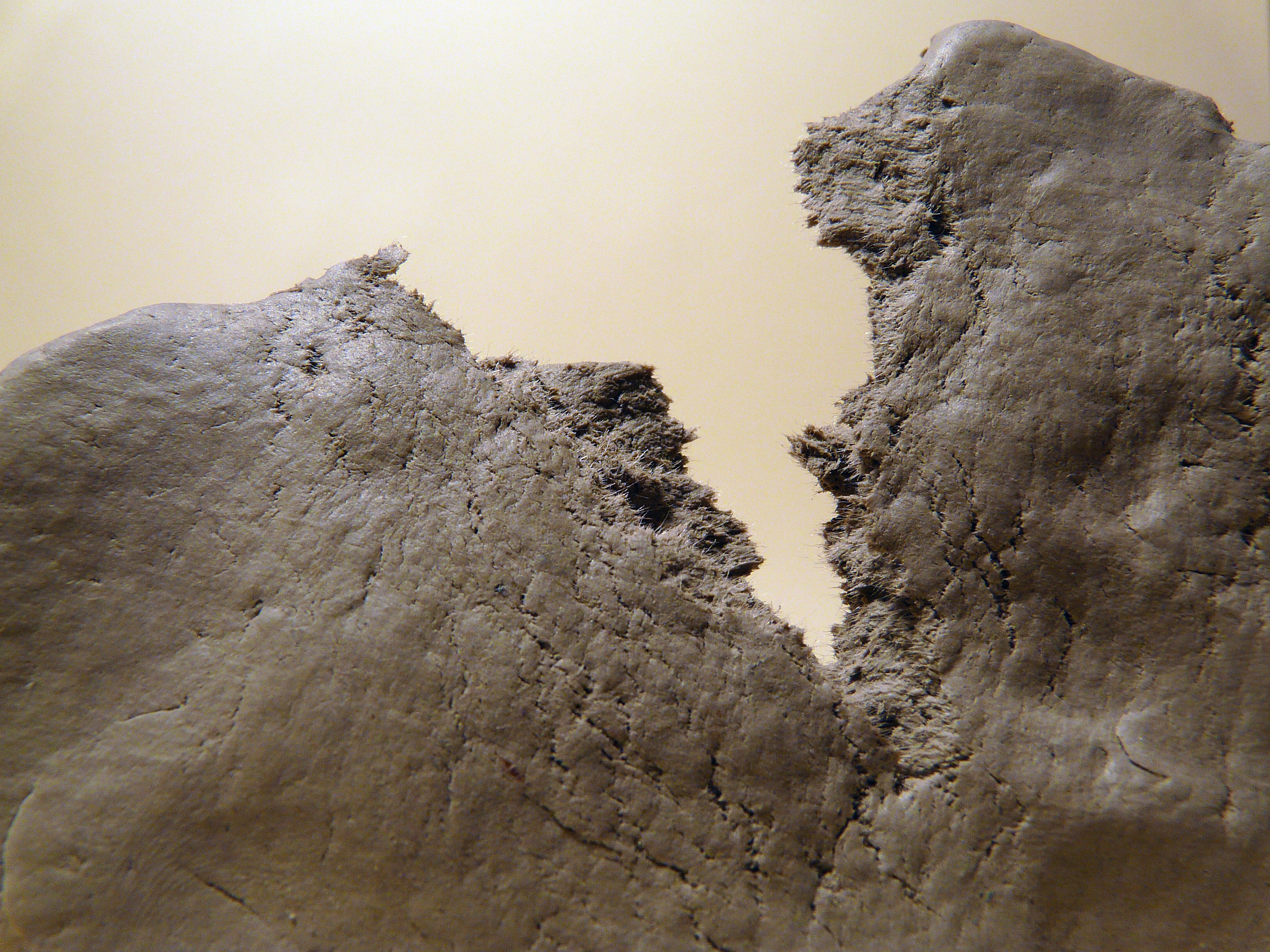 La terre-papier dévoile ses fibres. Fibers appear by tearing up paperclay.